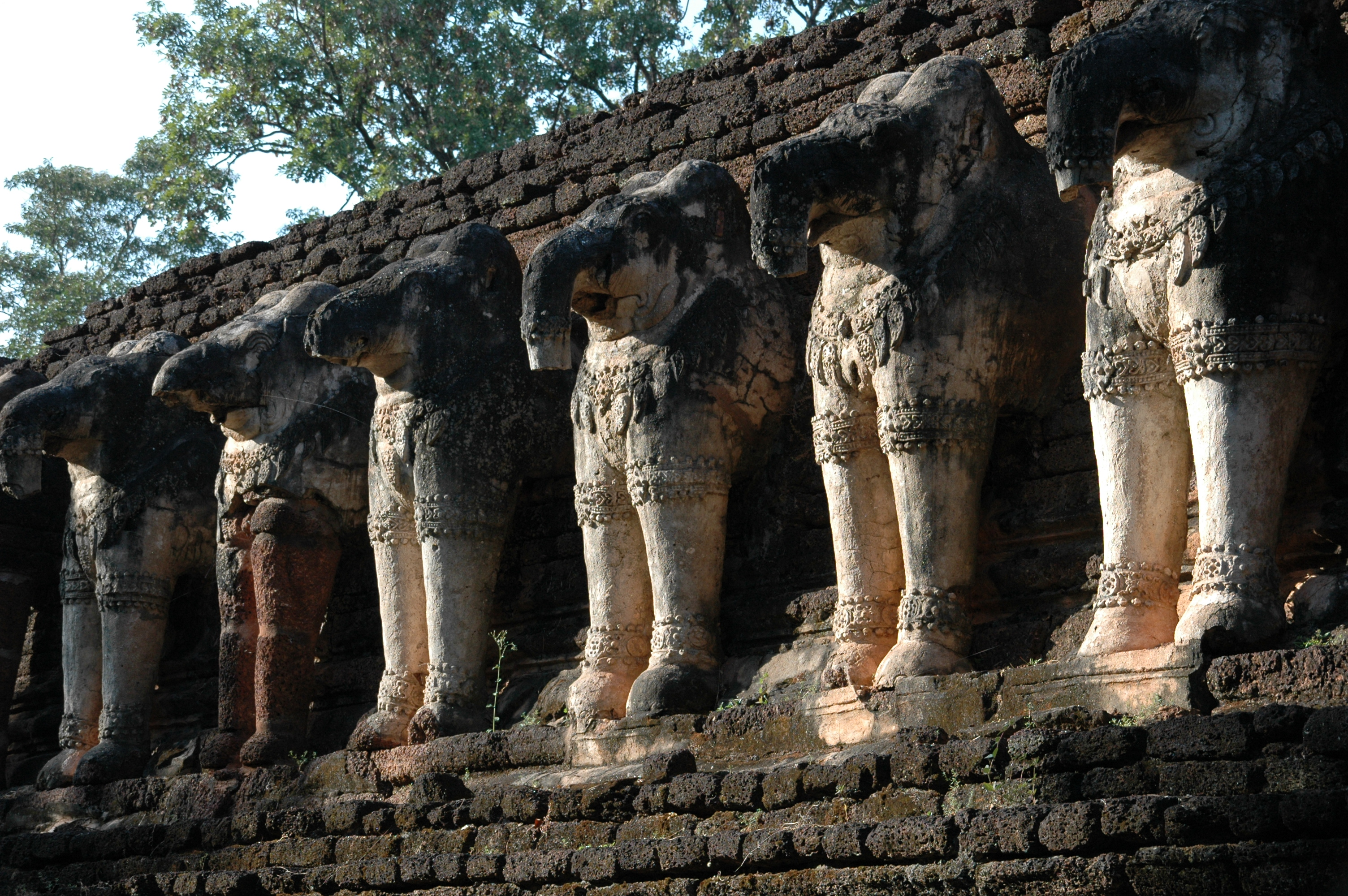 Thailand, Kamphaeng Phet, Wat Chang Rob, Detail